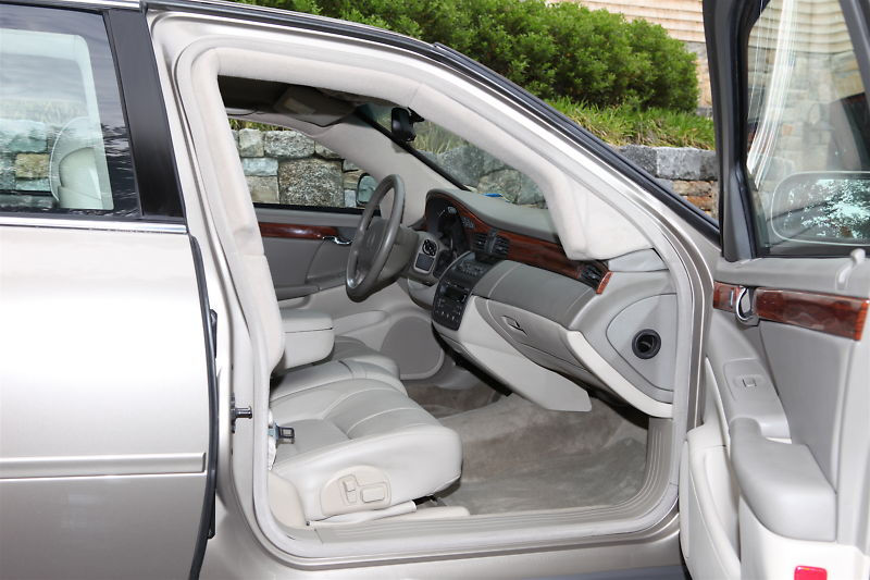 1,860 Miles on this car still. I guess the buyer didn't need the protection after all.